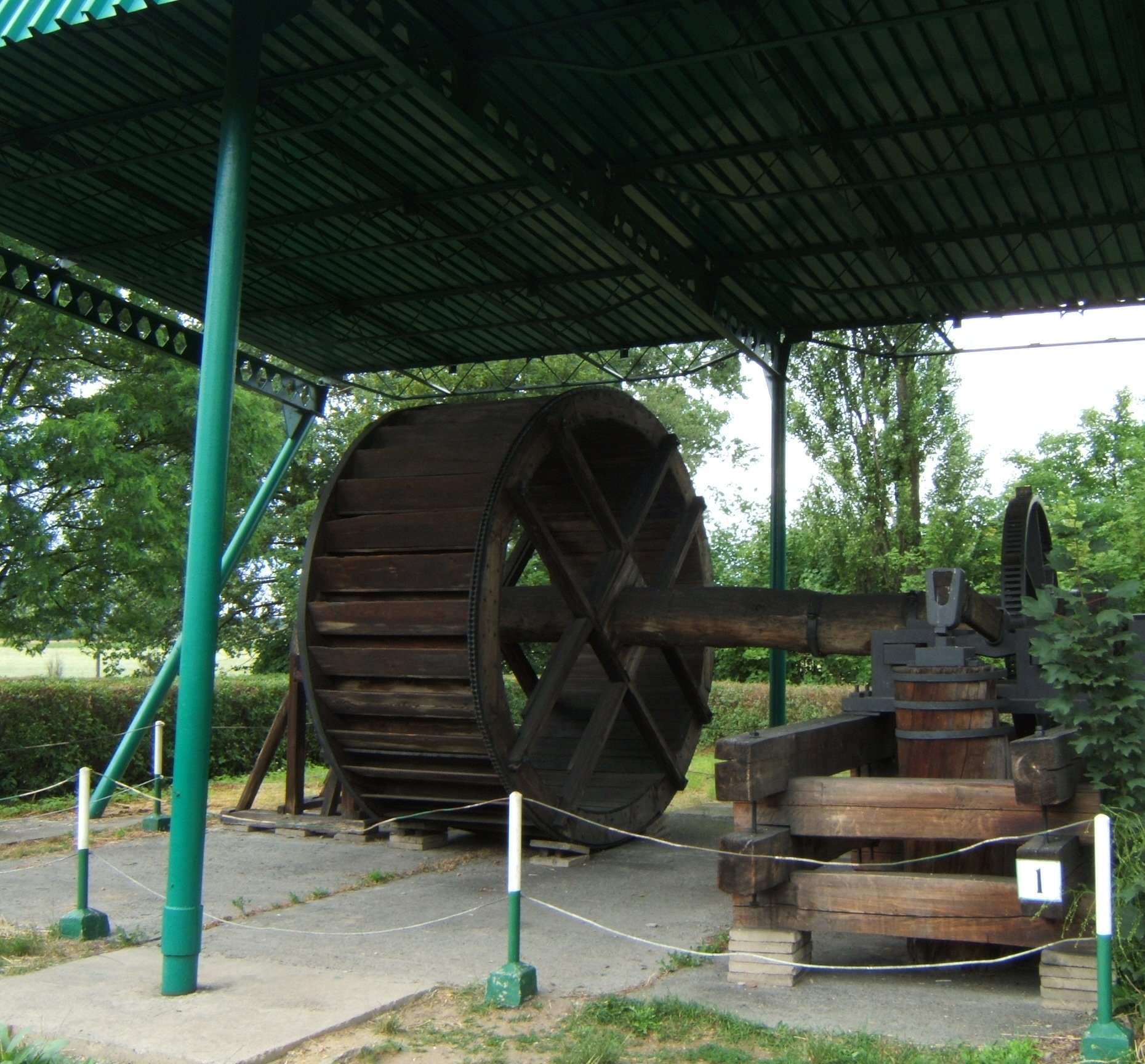 Water wheel. Exhibit of Steam Machines and Locomotives Heritage Park by historic mine in Tarnowskie Góry